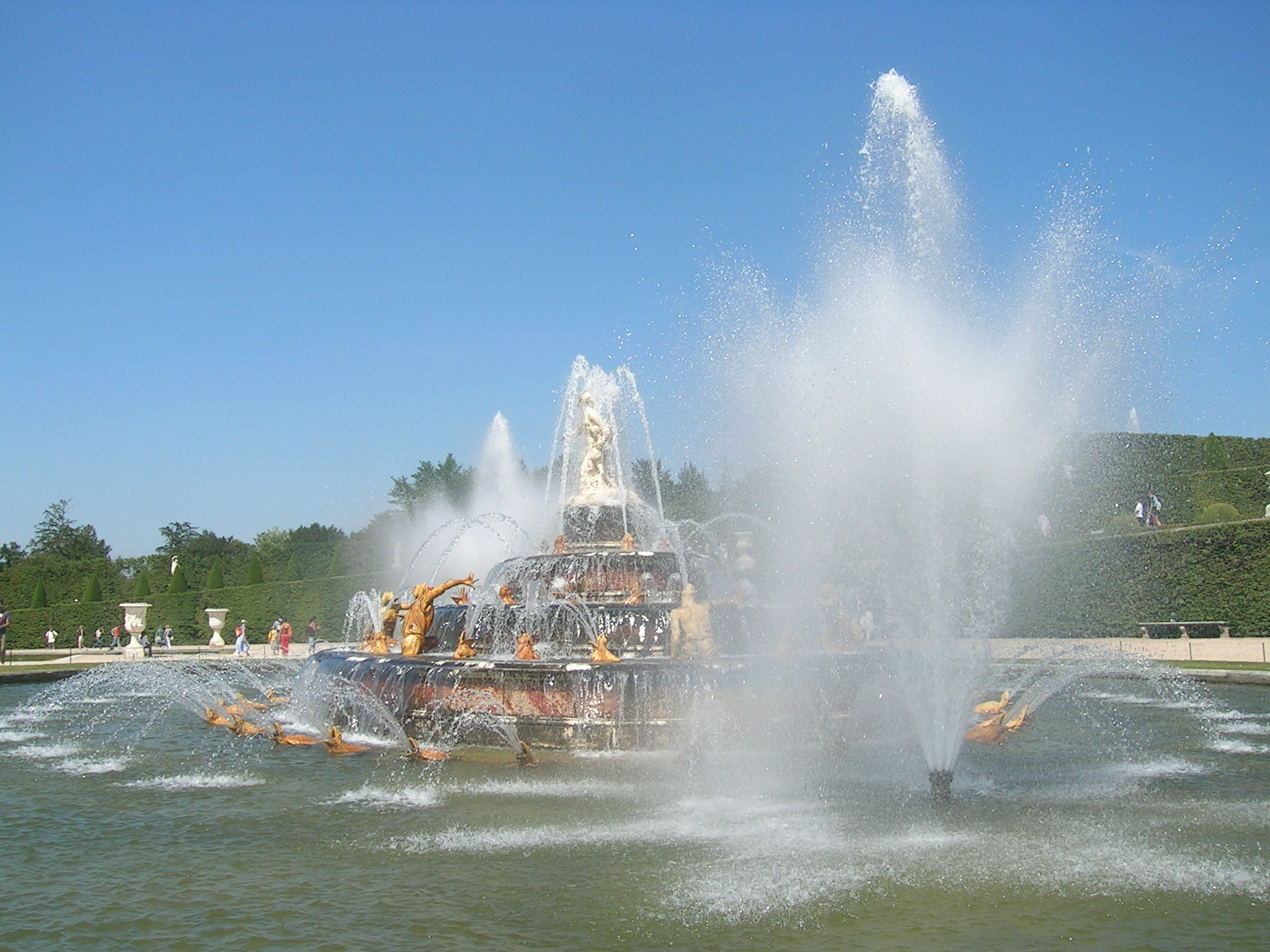 Picture of fountain at Versailles, France